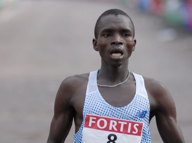 Sammy Kibet during City-Pier-Cityloop in The Hague